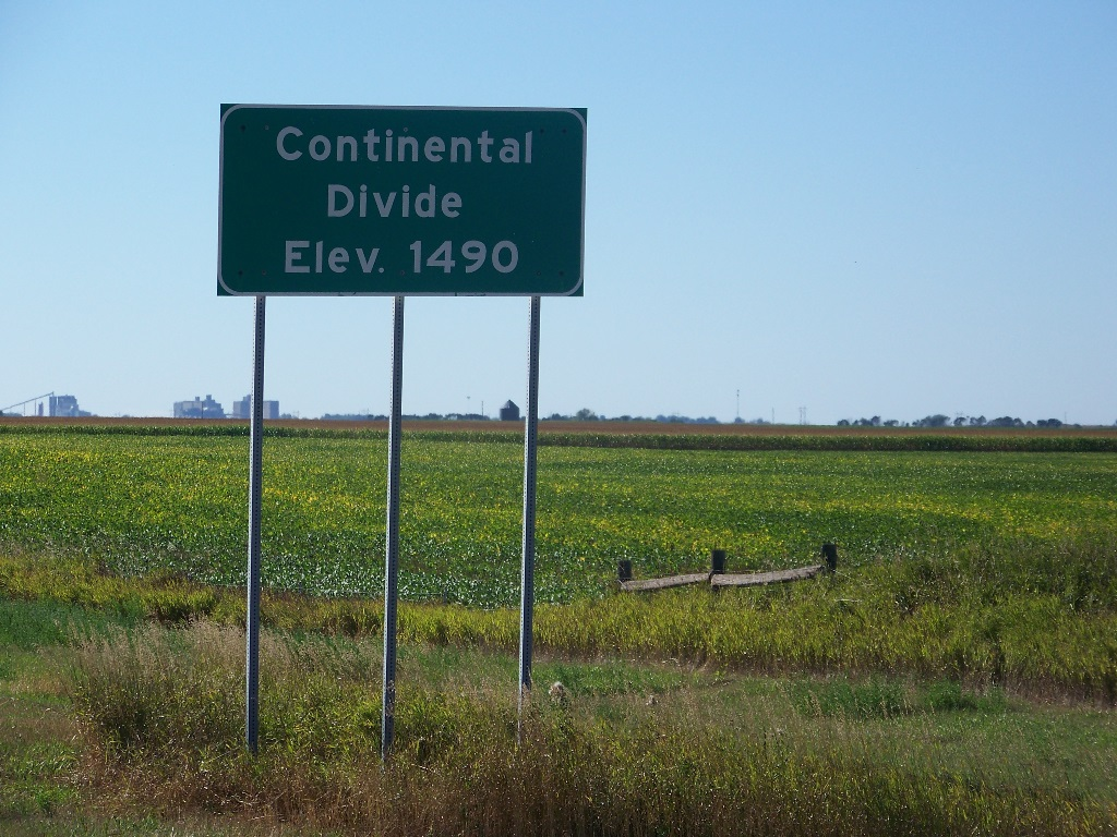 Continental Divide Sign on I-94 West in North Dakota